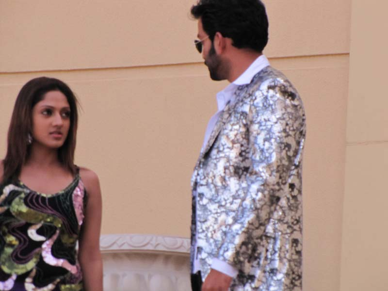 Actors Sheela and Prithviraj Sukumaran at Dubai location of Thanthonni (2010)